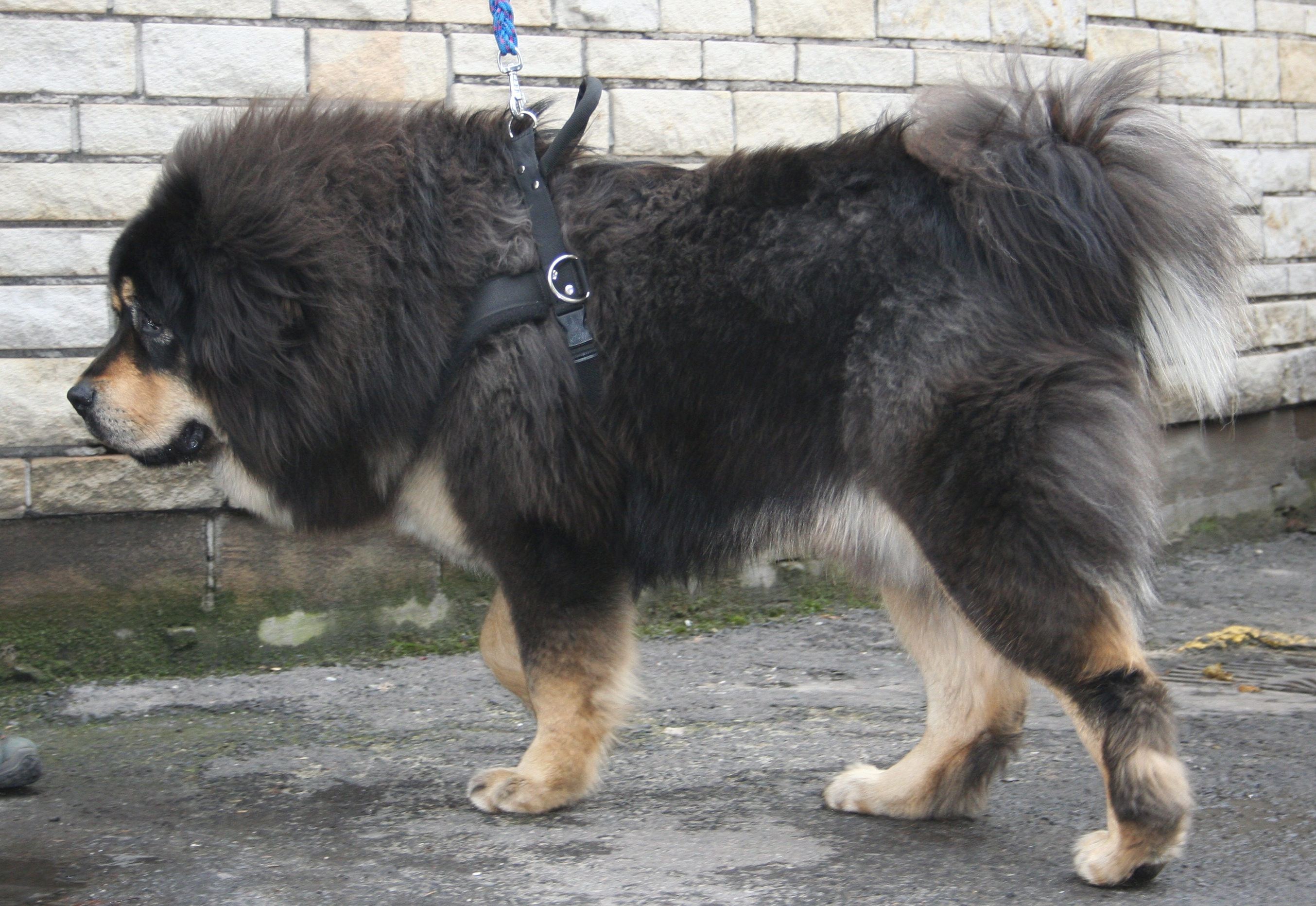 Tibetan Mastiff - dog during the international dogs show in Katowice, Poland. His name is Bagmati KHYI FADO which is called Hando. The owner is Marcin Krasoń from Poland.